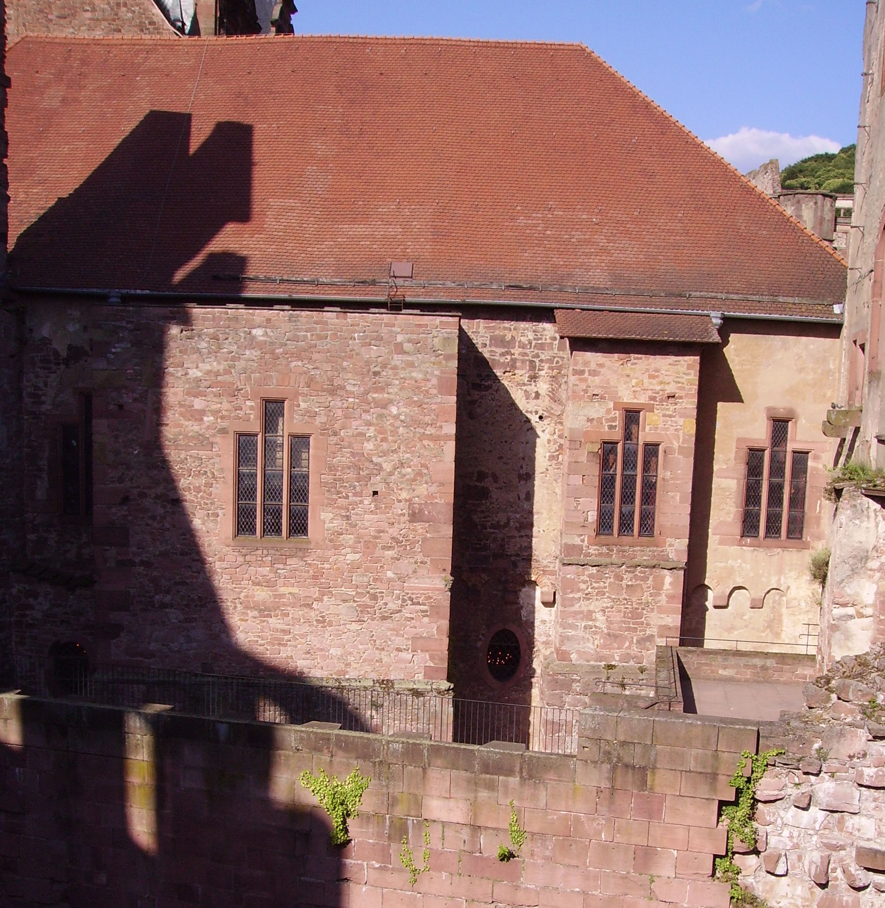 part of Heidelberg castle (Heidelberger Schloss)